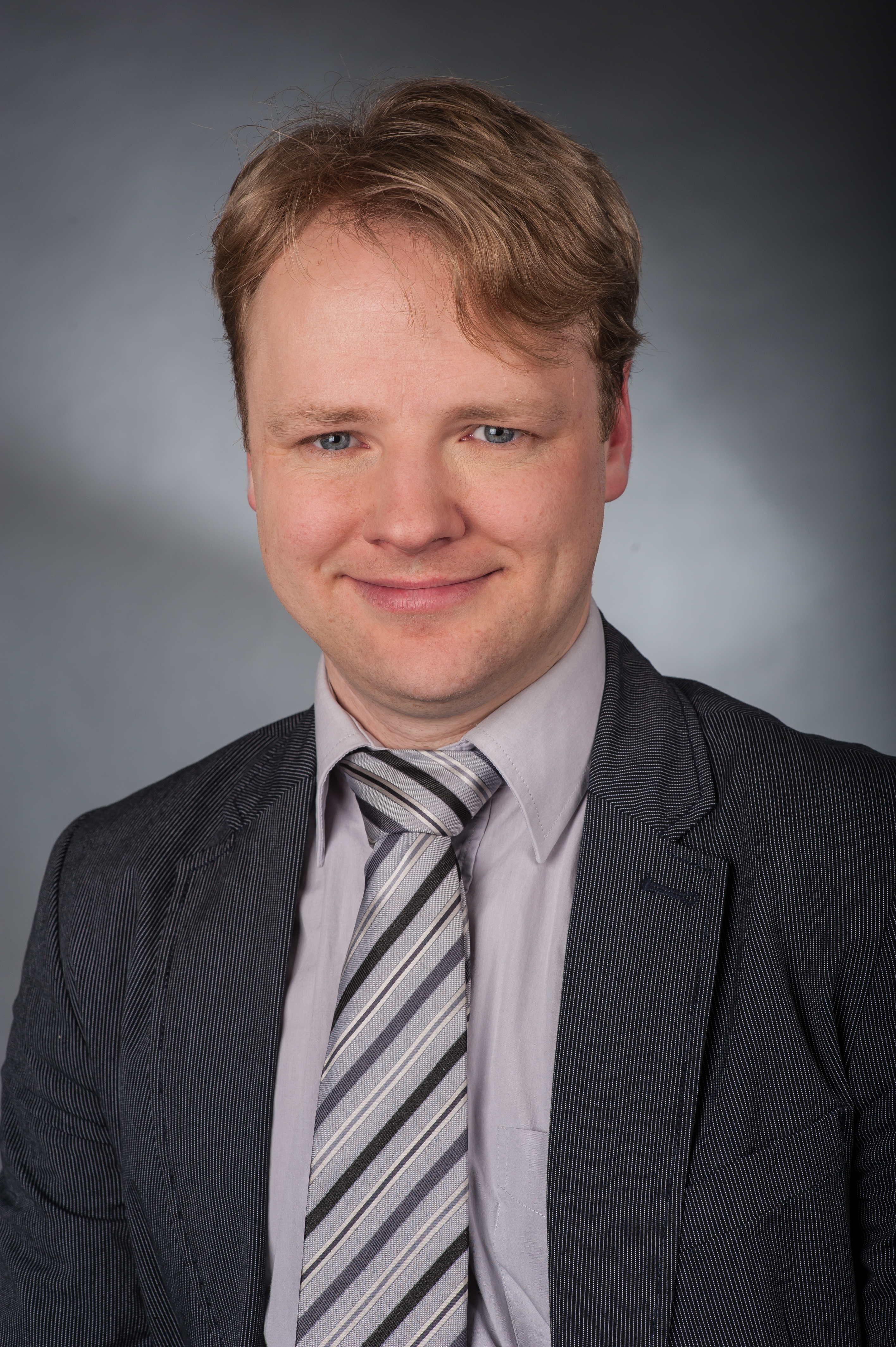 Wikipedia im Landtag – Niedersachsen 17. bis 18. April 2013 in Hannover Personality rights warningAlthough this work is freely licensed or in the public domain, the person(s) shown may have rights that legally restrict certain re-uses unless those depicted consent to such uses. In these cases, a model release or other evidence of consent could protect you from infringement claims.